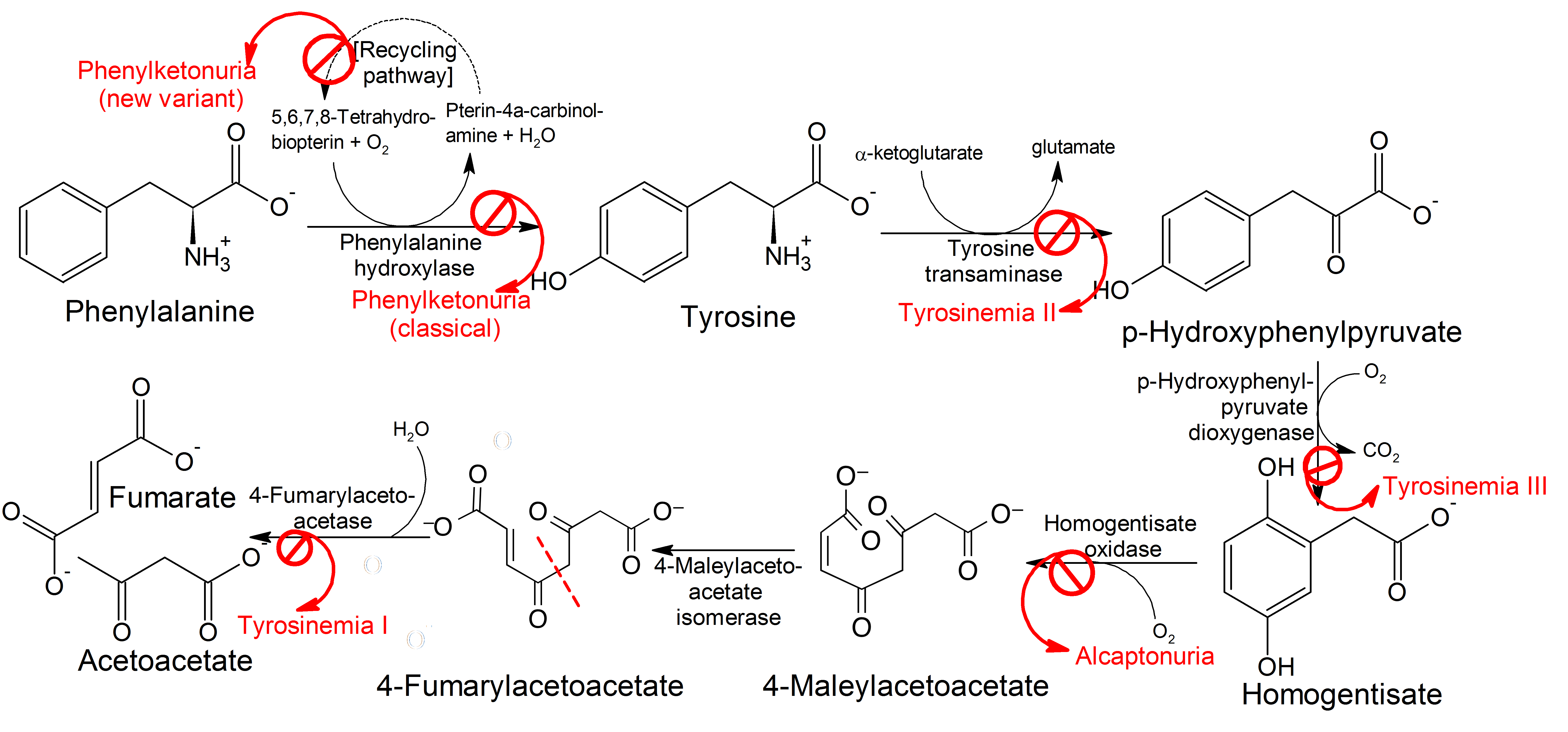 A biochemical pathway showing the usual amino acid metabolism and the corresponding deficient/absent enzymes in the metabolic disorders of phenylalanine and tyrosine